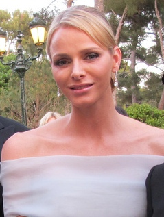 The Princess of Monaco at the "Cinema Against AIDS" Gala.